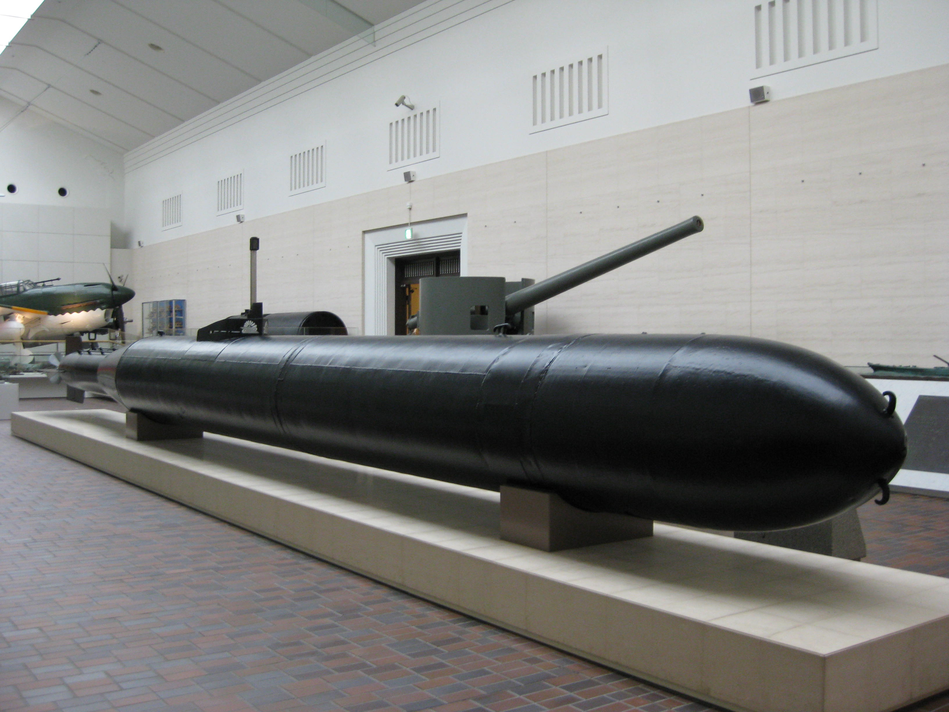 A Kaiten, Type 1 on display at the Yūshūkan in October 2008